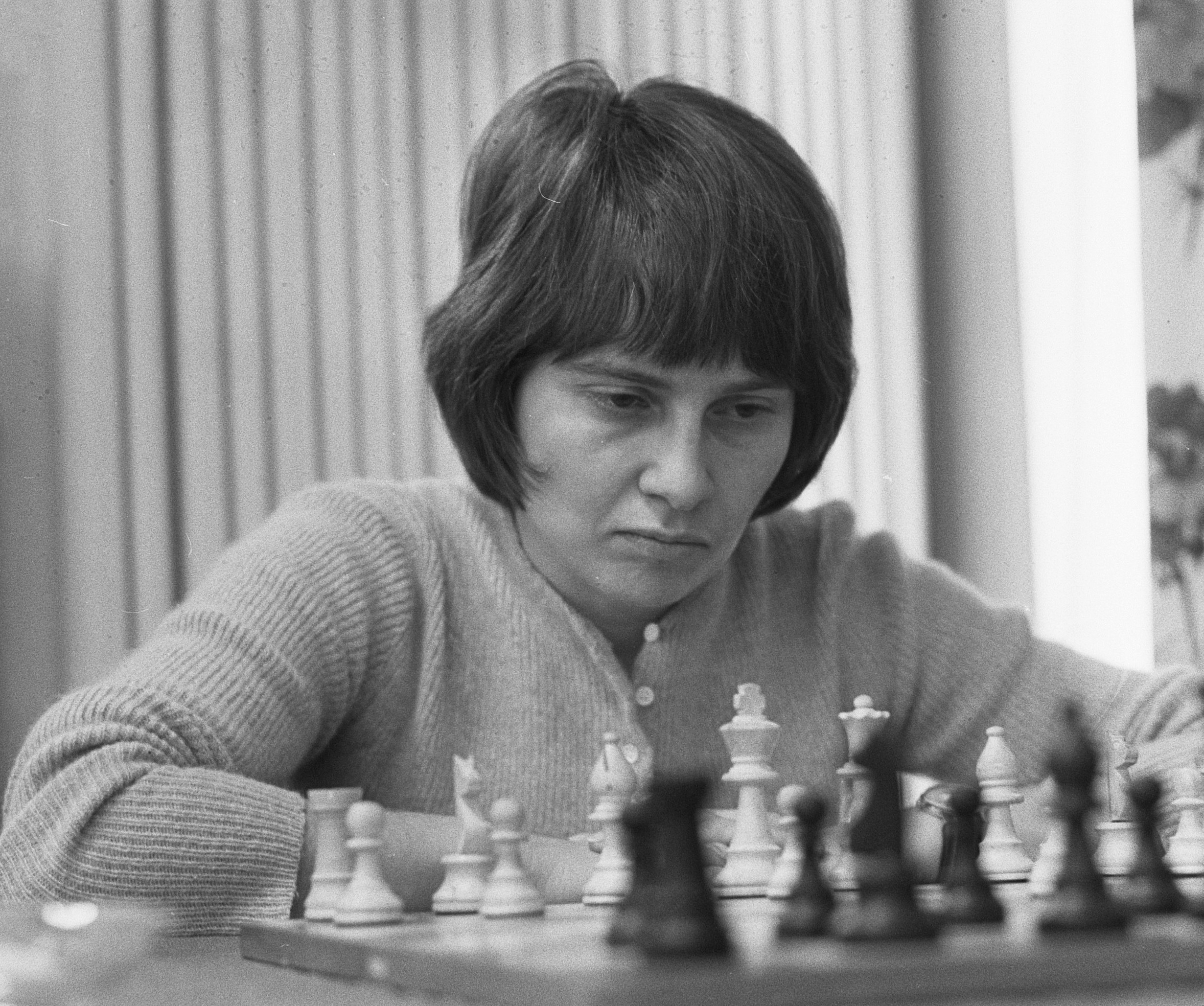 Alla Kushnir (Alla Koesjnir) Hoogvens Tournament Wijk aan Zee (The Netherlands), 17 Jan. 1973